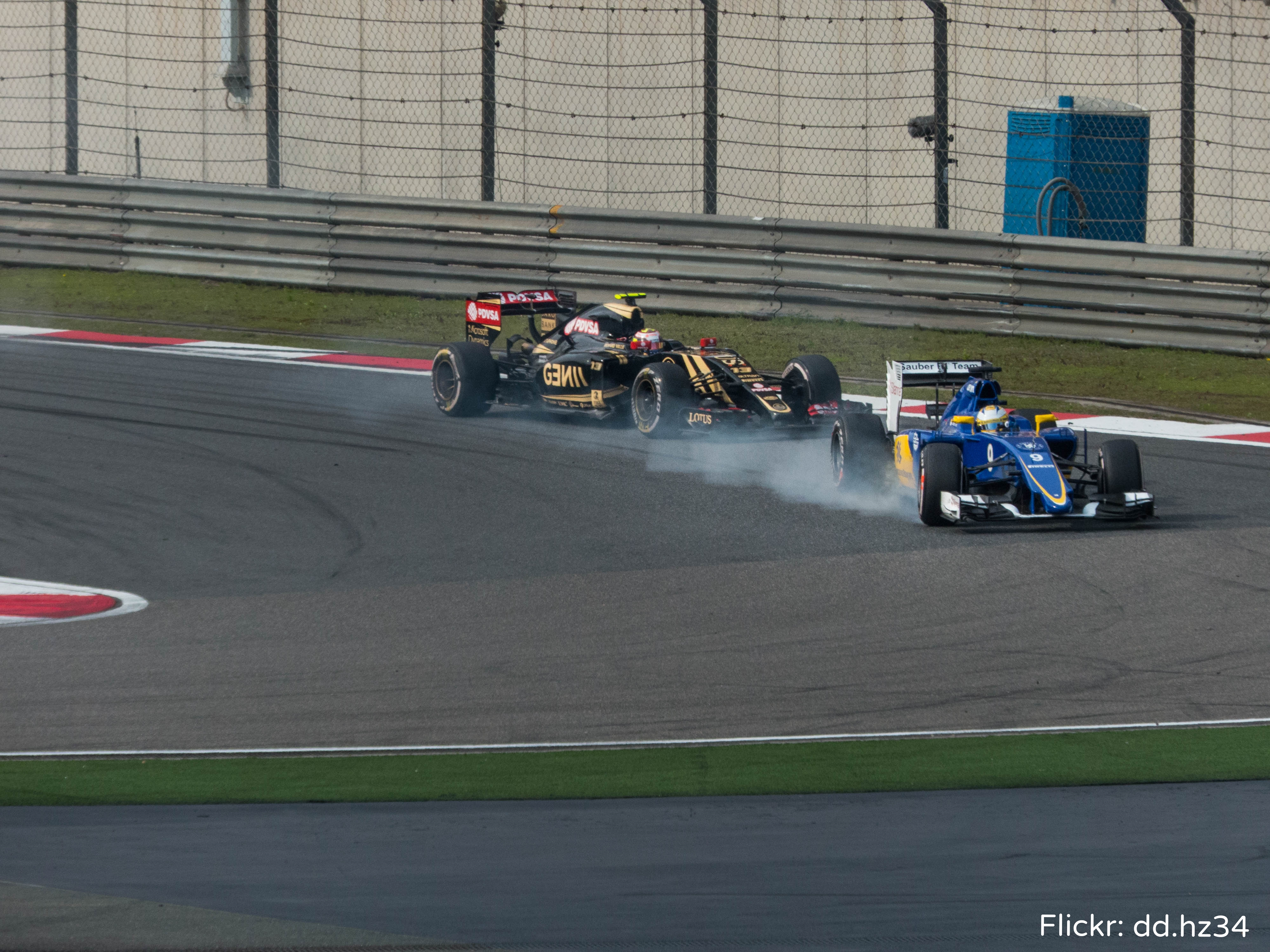 Ericsson ahead of Maldonando at 2015 Chinese Grand Prix